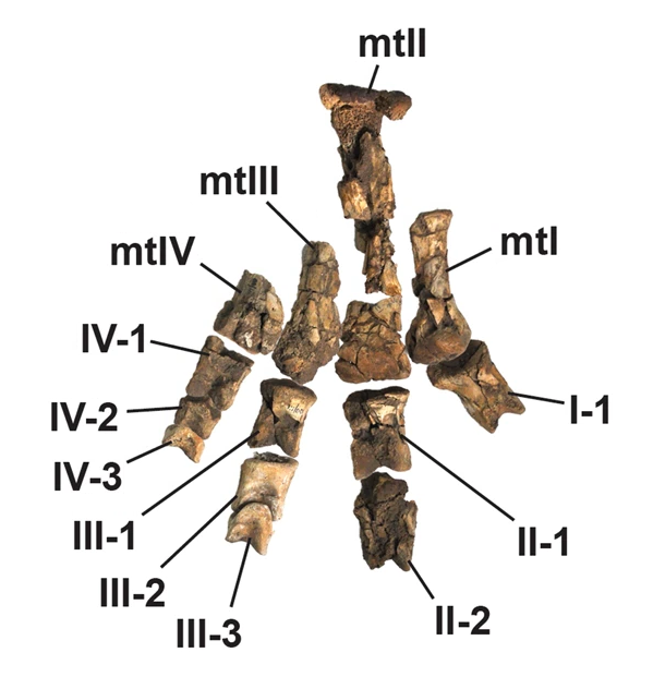 Comparison of a digital map of a therizinosaurid track (DMNH 2010-07-01) (a) from study area with the articulated foot of the therizinosaurid Erlikosaurus andrewsi (b). The similarities in digit proportions are clear in (c), an overlay of illustration b on a line drawing of illustration a. Because the track shown in a is preserved in raised relief, the line drawing has been inverted to correspond to the order of digits if preserved in negative relief.